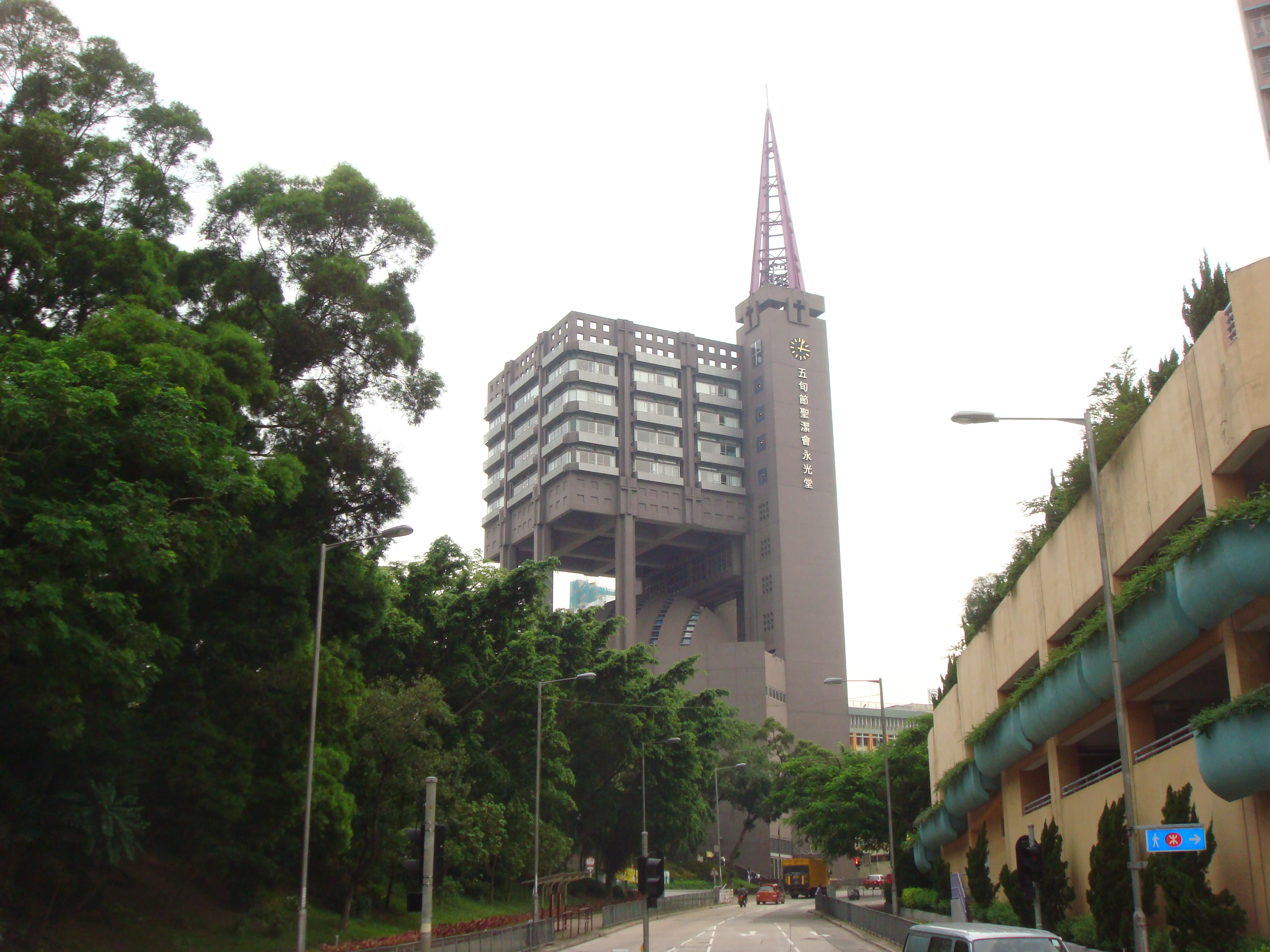 Wing Kwong Pentecostal Holiness Church, in Lok Fu, Hong Kong